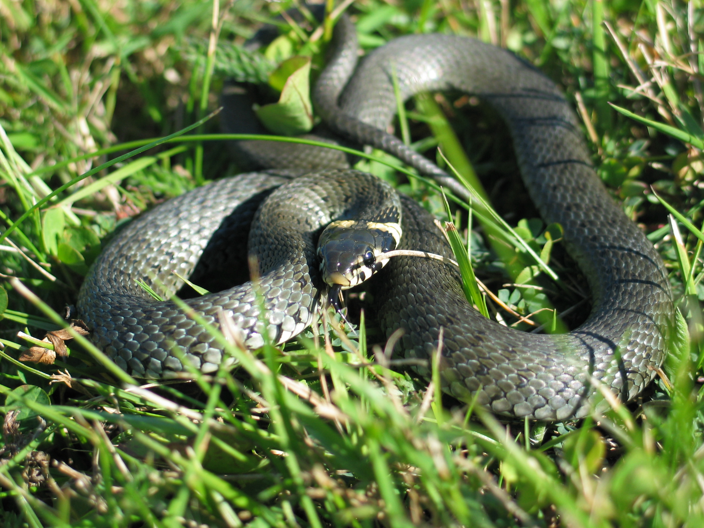 Grass Snake (Natrix natrix) in grass.